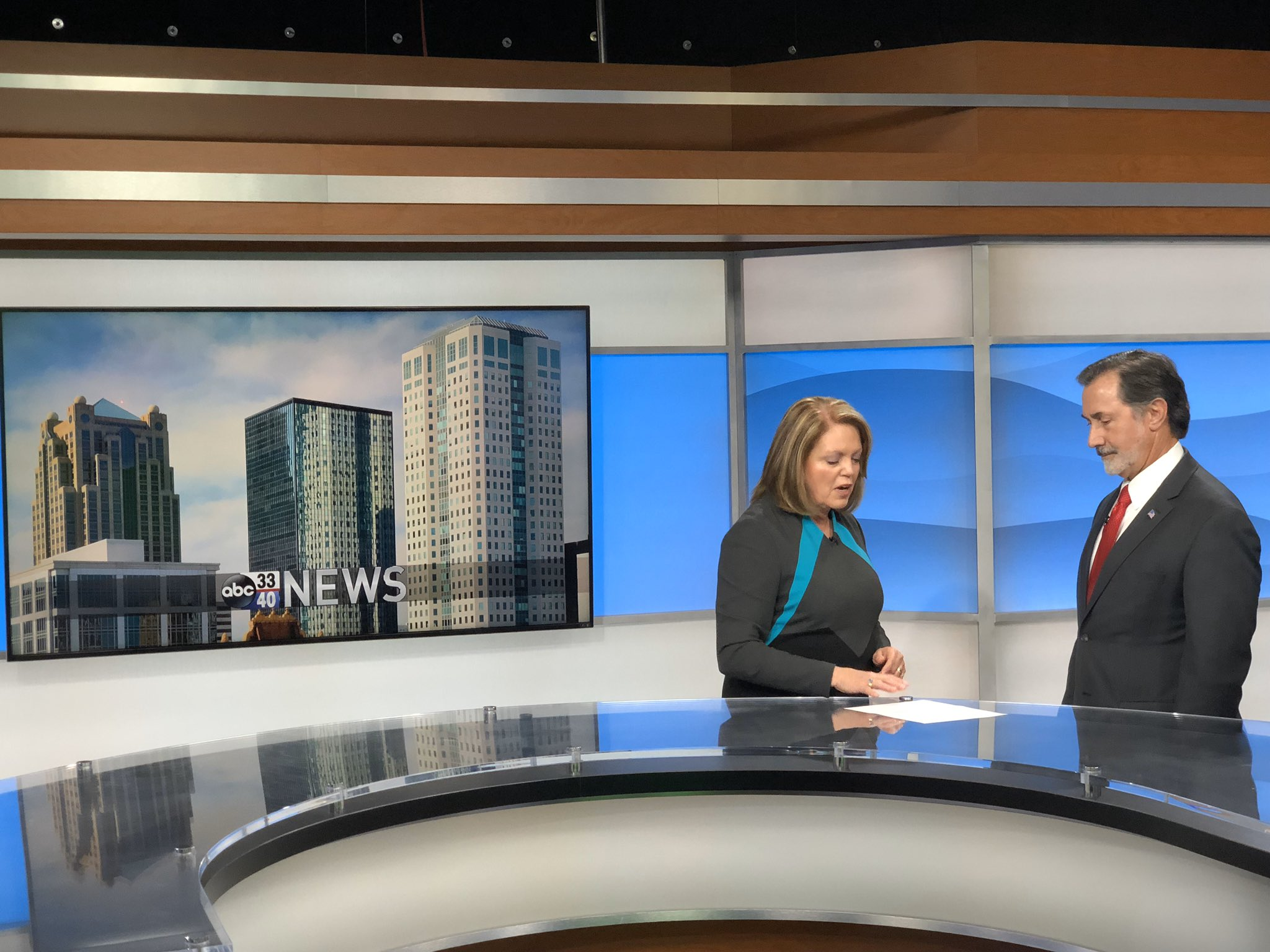 Thanks for having me on today, @pamabc3340! This was a great discussion about #Iraq, #Impeachment, and more. Make sure you tune in at 4pm and 5pm CT today, #AL06!